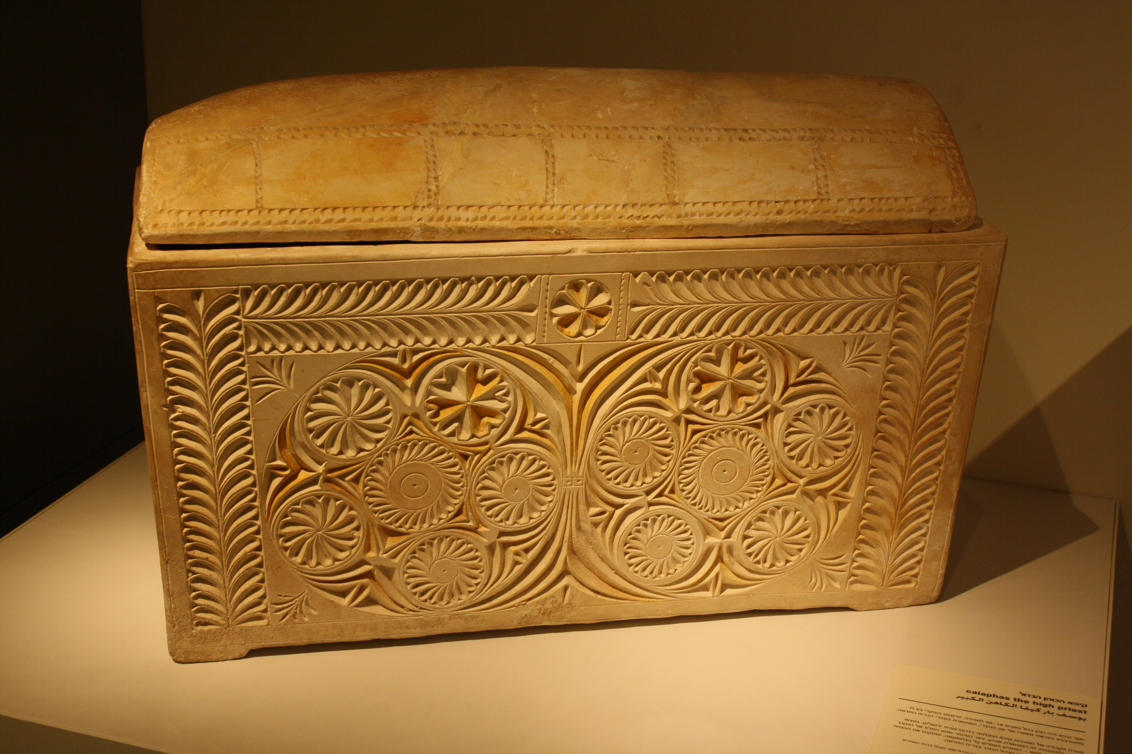 The Ossuary of Kayafa (Caiaphas), the High Priest, in the time of Jesus